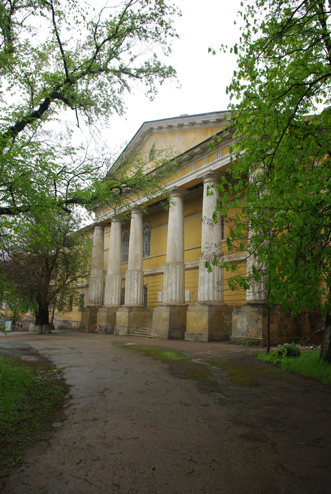 "Circular enclosure" of the Odessa Municipal Clinical Infectious Hospital - the first stone building in Odessa at the address. Pasteur 5 / 7. The building was built by architect Tom de Tomon in classic style. Approximate date of construction of 1804-1812 years.